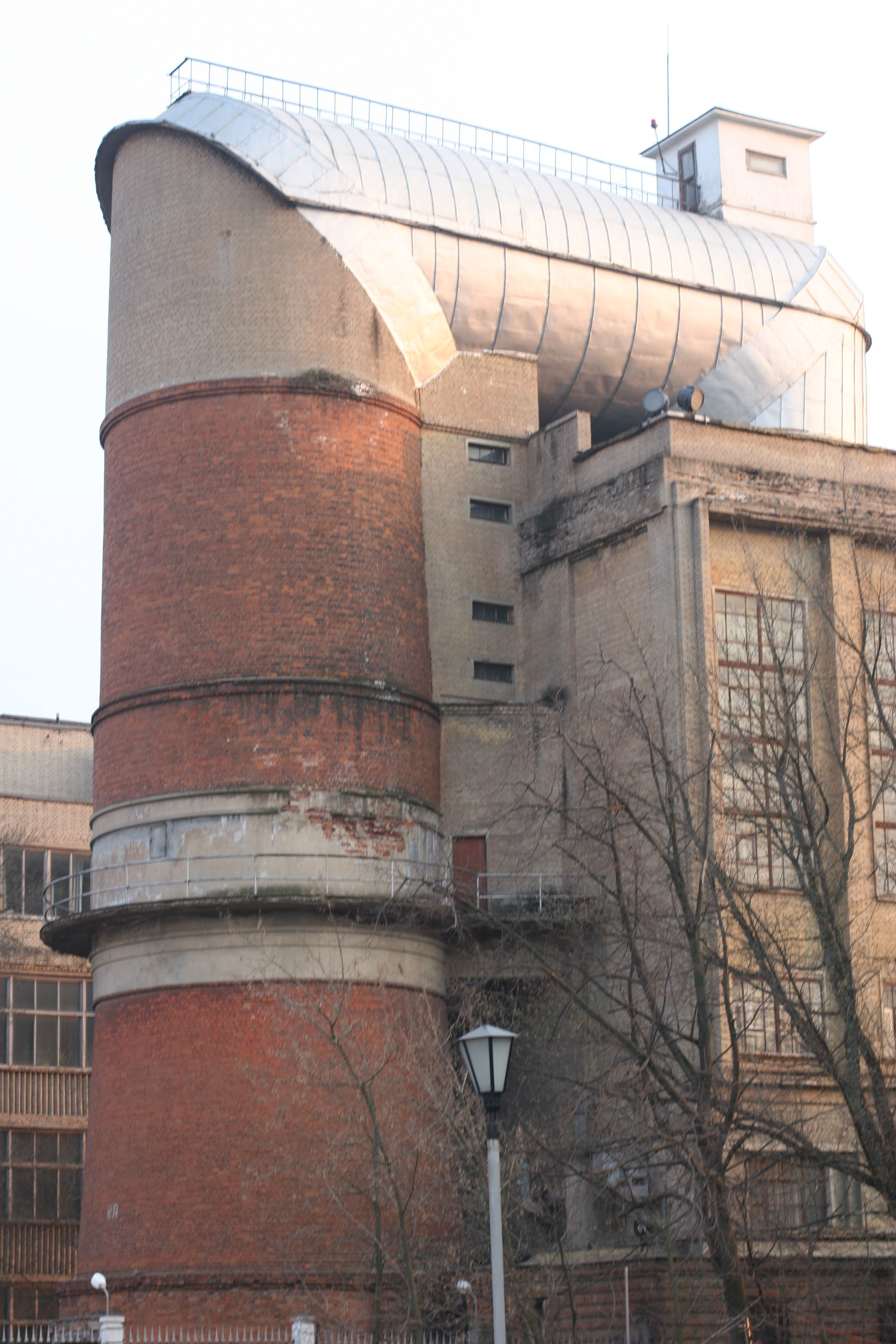 Vertical wind tunnel T-105 at TsAGI, built in 1941